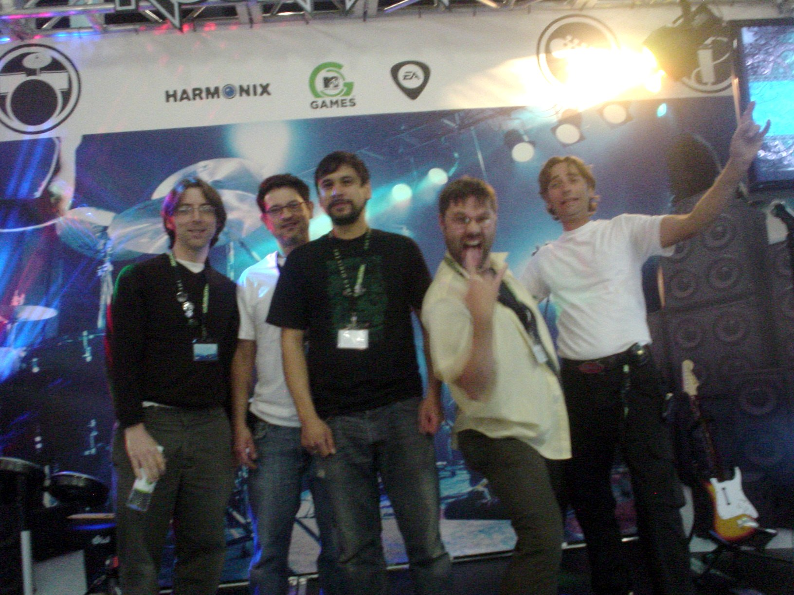 Lovecraft-inspired, punk-pop rock band, The Darkest of the Hillside Thickets, after playing their song "Shhhh..." on Rock Band 2. Taken at the Harmonix booth/stage at the 2008 Penny Arcade Expo. left-right Warren Banks, Jordan Pratt, Mario, Toren Atkinson, Merrick Atkinson.